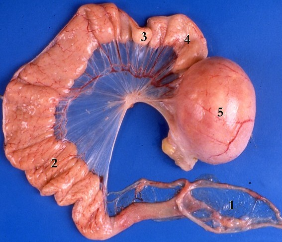 Oviduct of a laying hen 1 Infundibulum, 2 Magnum, 3 Isthmus, 4 Uterus, 5 Vagina with egg inside